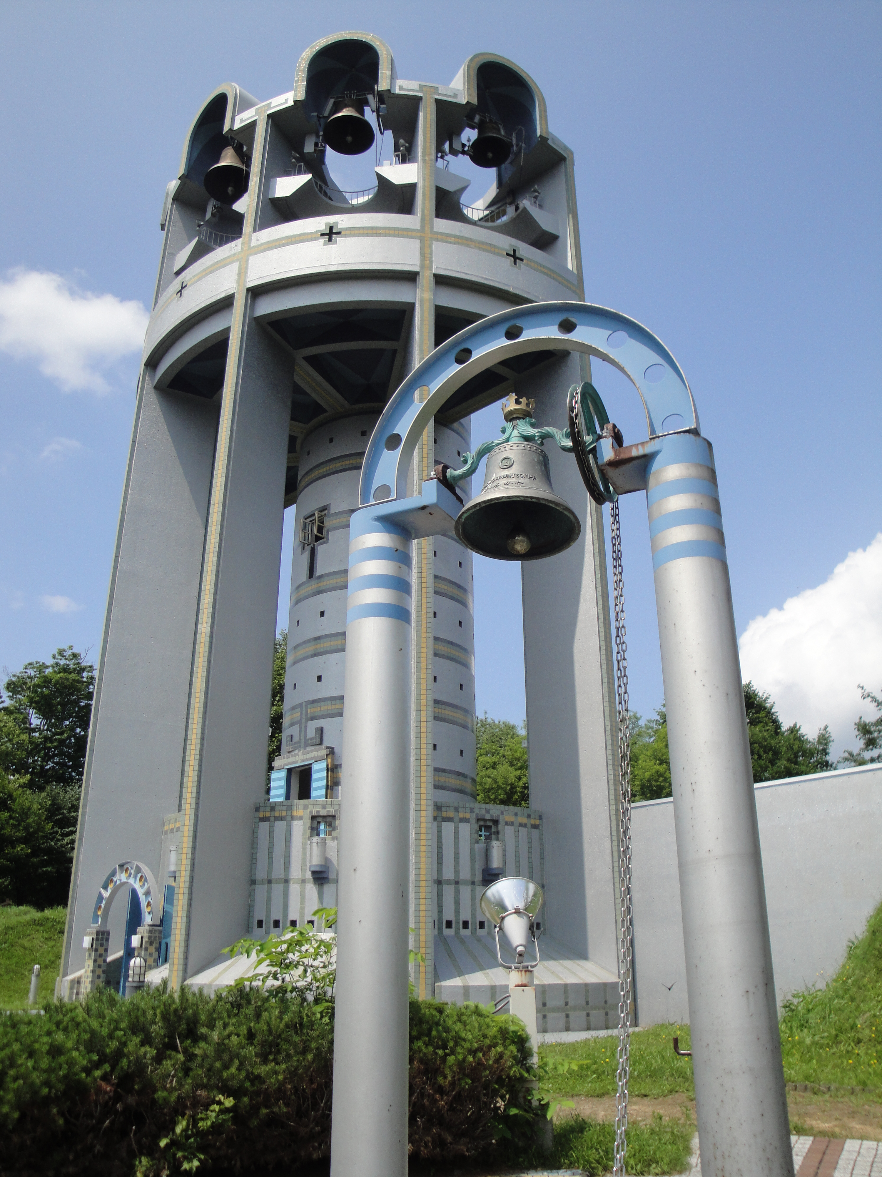 Bells of Espoir, Daisetsu Observatory 中文（台灣）: 大雪展望台